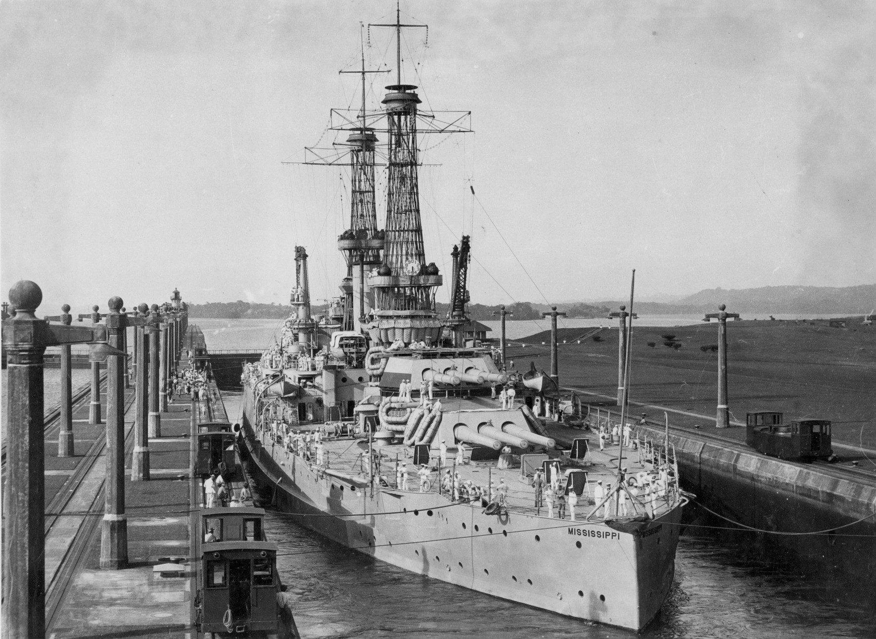 The U.S. Navy battleship USS Mississippi (BB-41) transiting the Panama Canal during the 1920s.